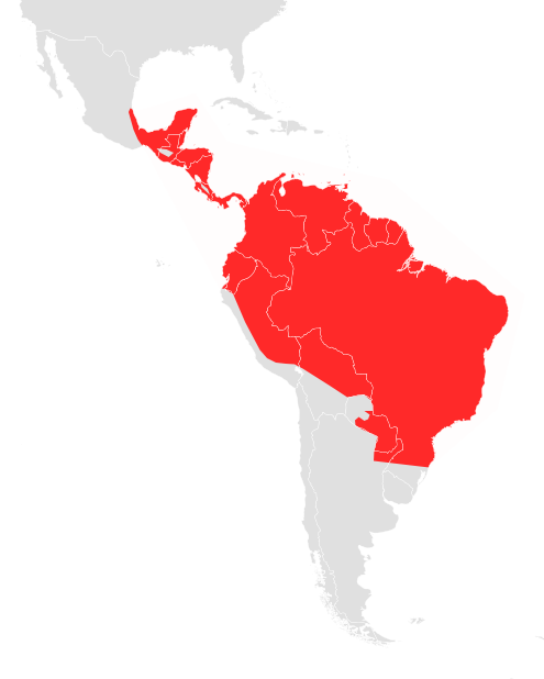 Distribution of Carollia perspicillata